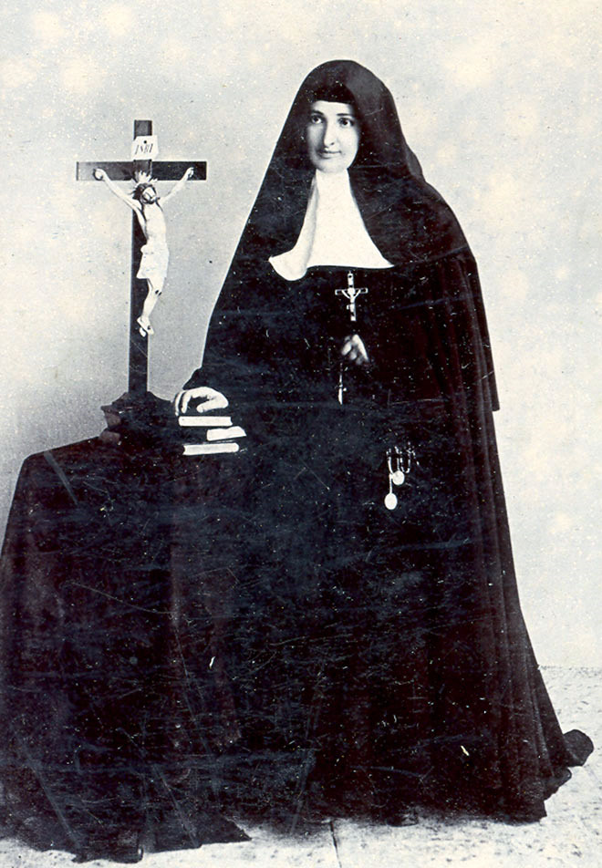 Bertilda Samper Acosta, later known as Sister María Ignacia (1856-1910), was a Colombian Roman Catholic nun, poet and writer.